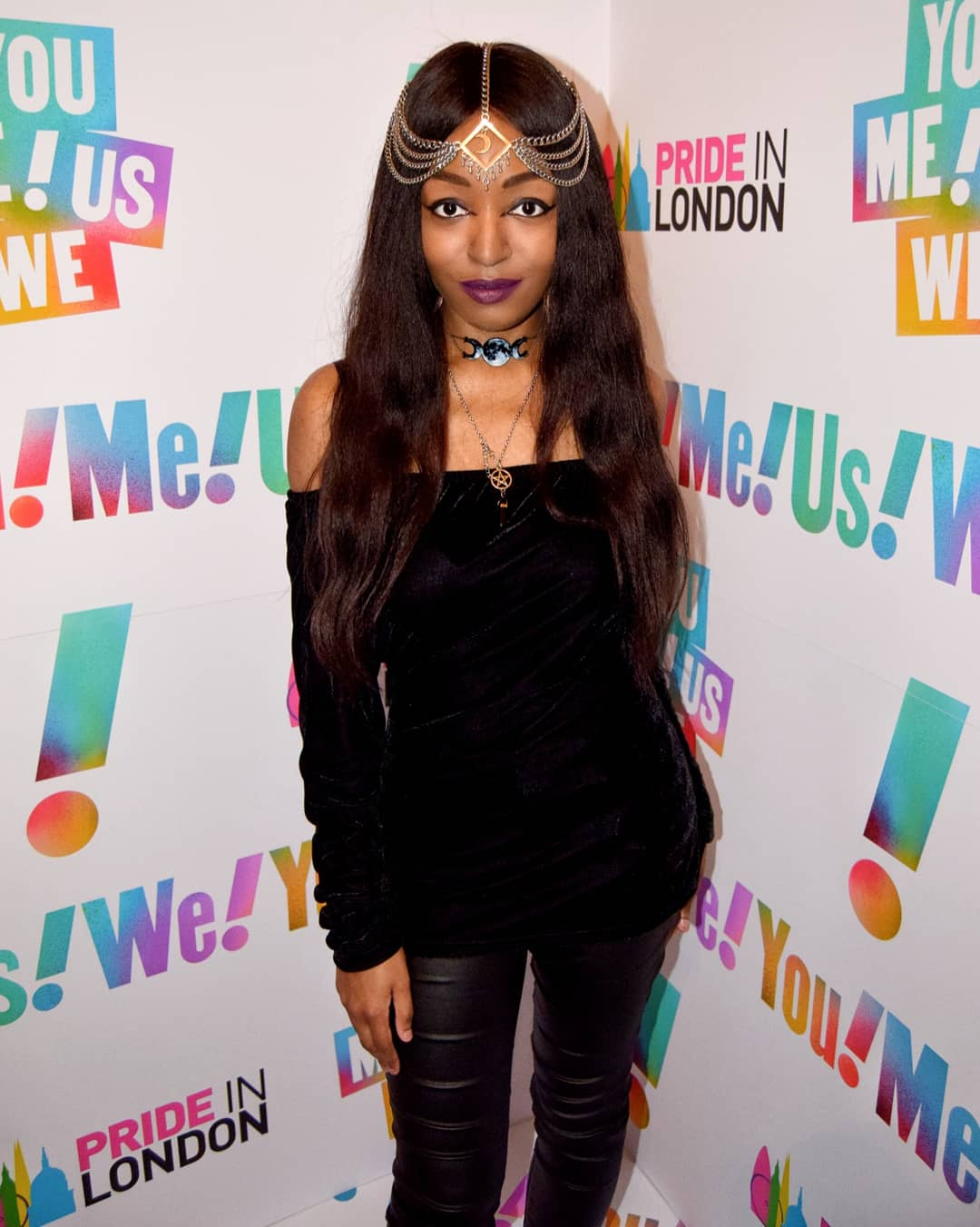 Model and activist, Yasmin Benoit, at Pride in London's You!Me!Us!We! launch at the House of St. Barnabas